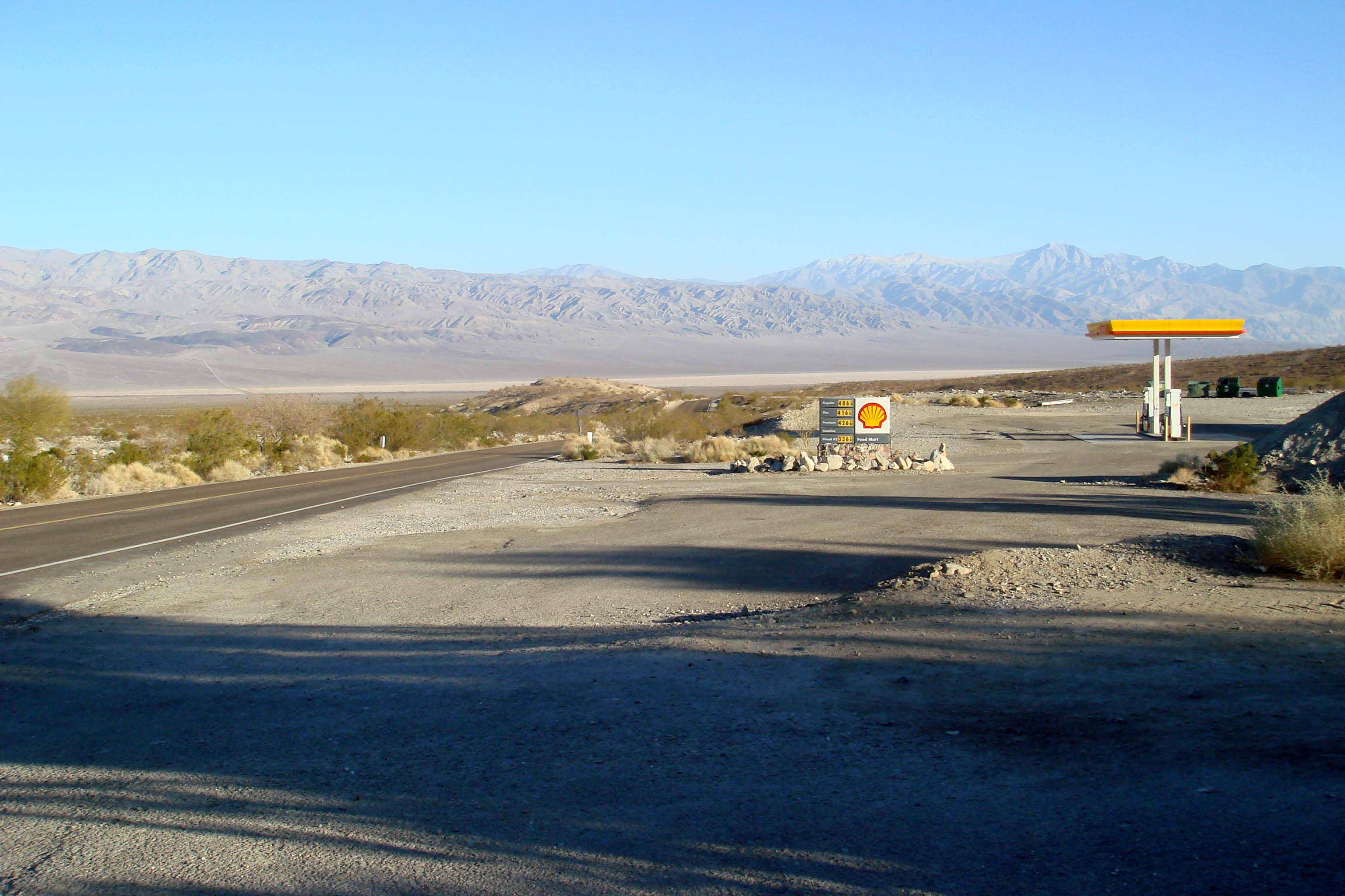 Panamint Valley from Panamint Springs, California --and YES, those gas prices are nearly twice the rate they were at the time in places not at the edge of Death Valley.